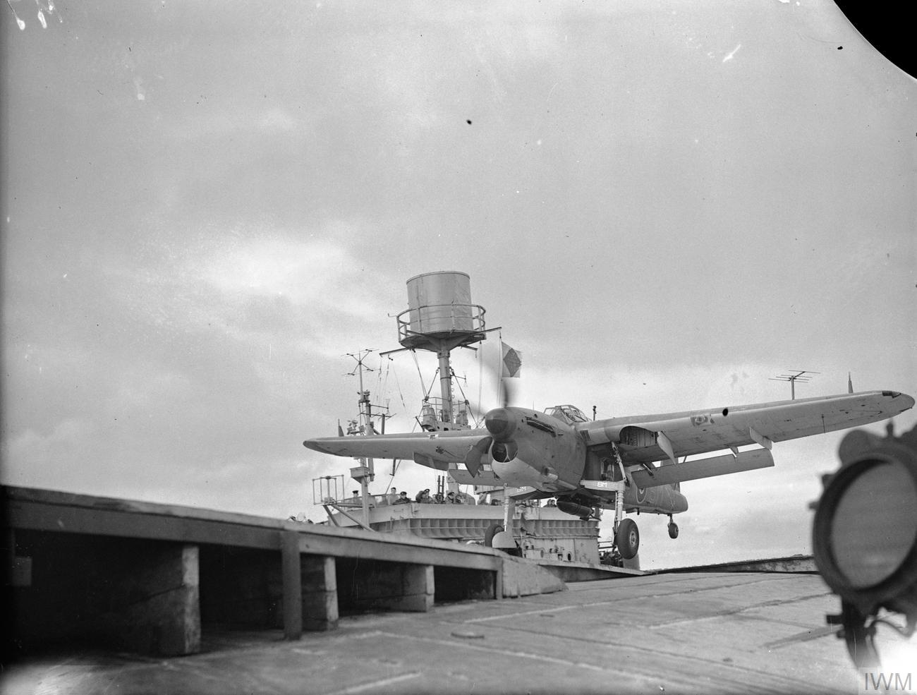 The Royal Navy during the Second World War A Fairey Barracuda of 830 Squadron, Fleet Air Arm taking off from HMS FURIOUS with a 1600 lb bomb showing beneath it, to attack shipping and installations off Norway. In his book Carrier Operations in World War II (page 25) David Brown identified this photo as depicting an aircraft taking off at the start of the Operation Mascot strike against the German Battleship Tirpitz on 17 July 1944